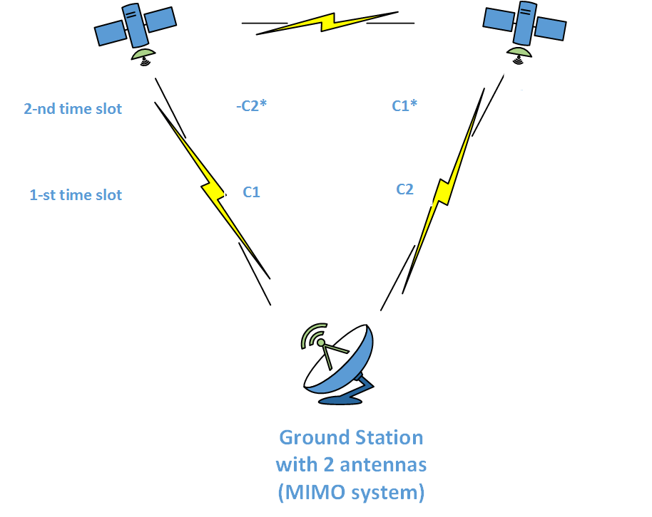 This scheme was used by us in [1].